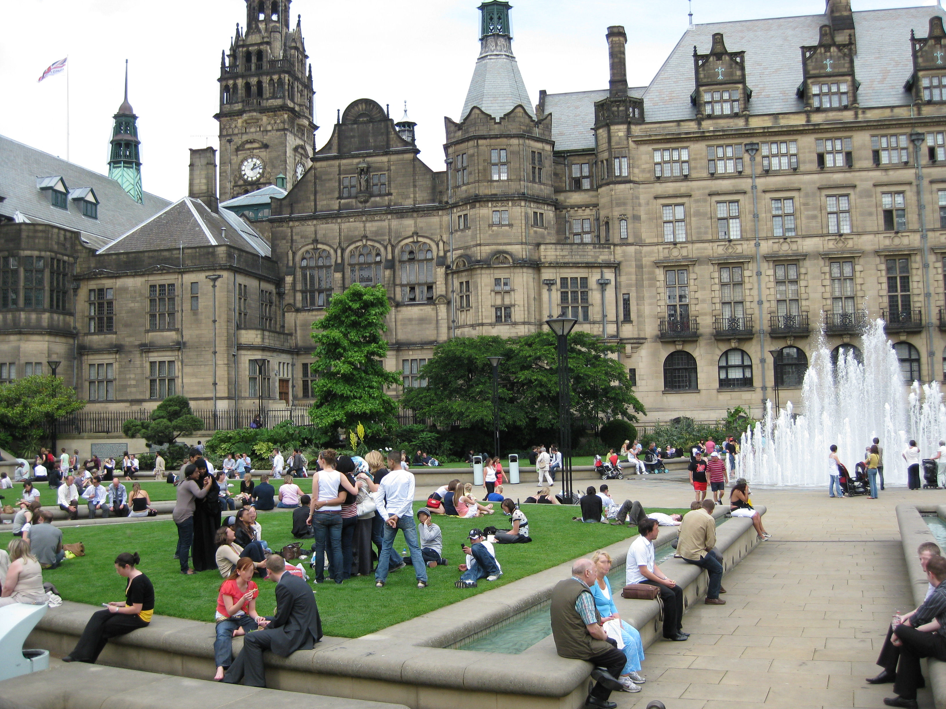 Peace Gardens Sheffield, with the Town Hall behind